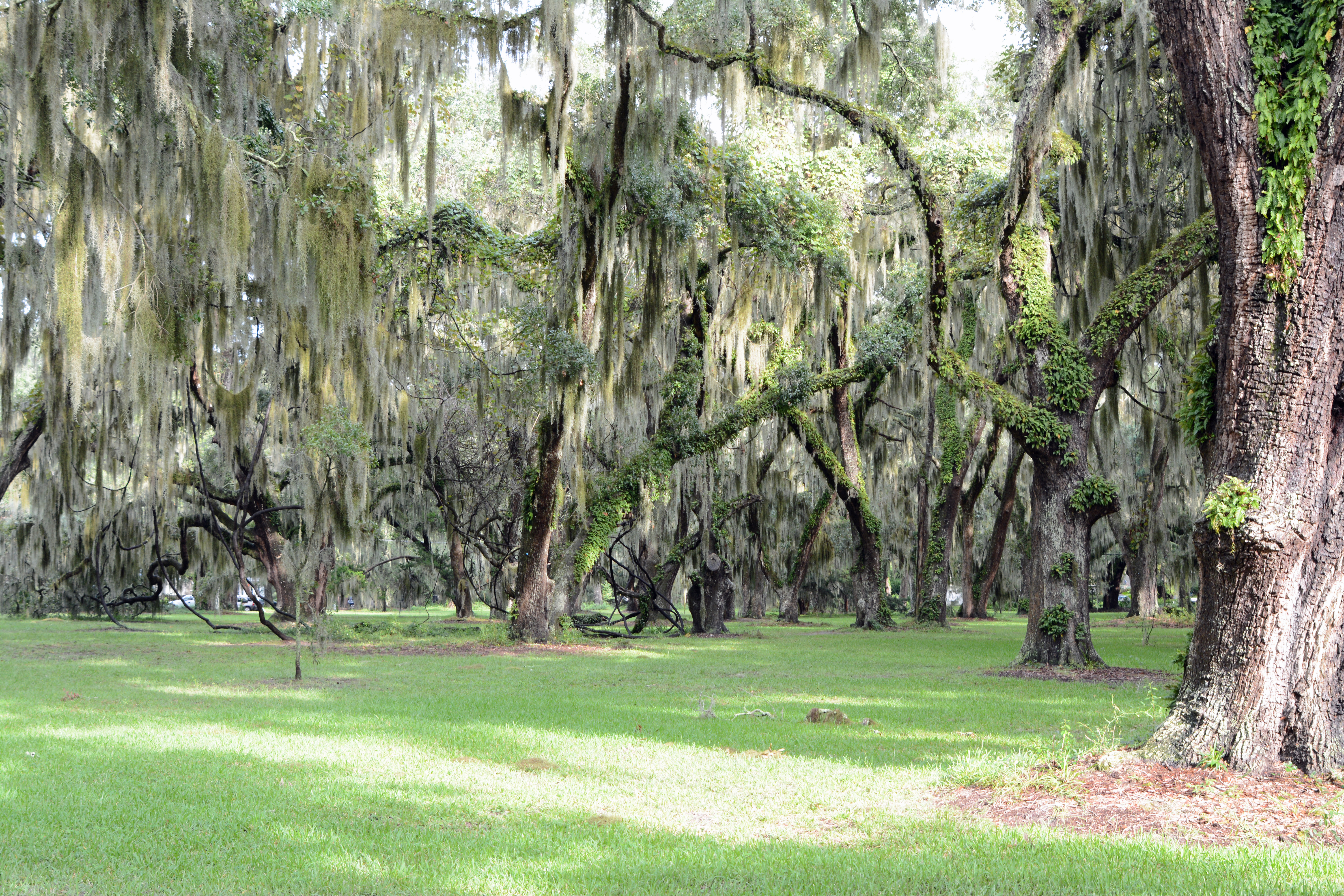 St Simons Park, off Mallery Street, St. Simons, Georgia, US